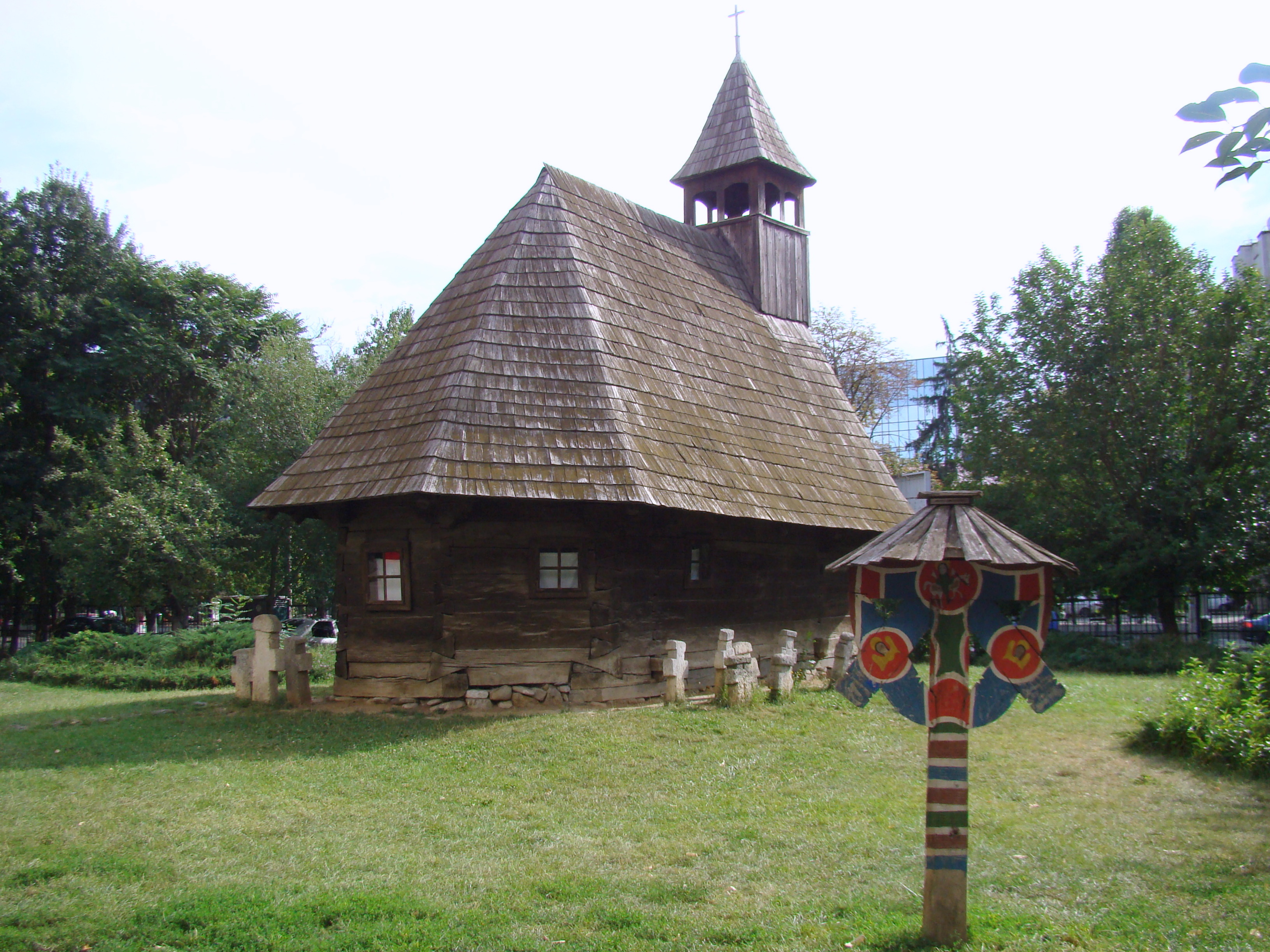 Wooden church in Bejan, Hunedoara county, transfered in Bucharest in 1992